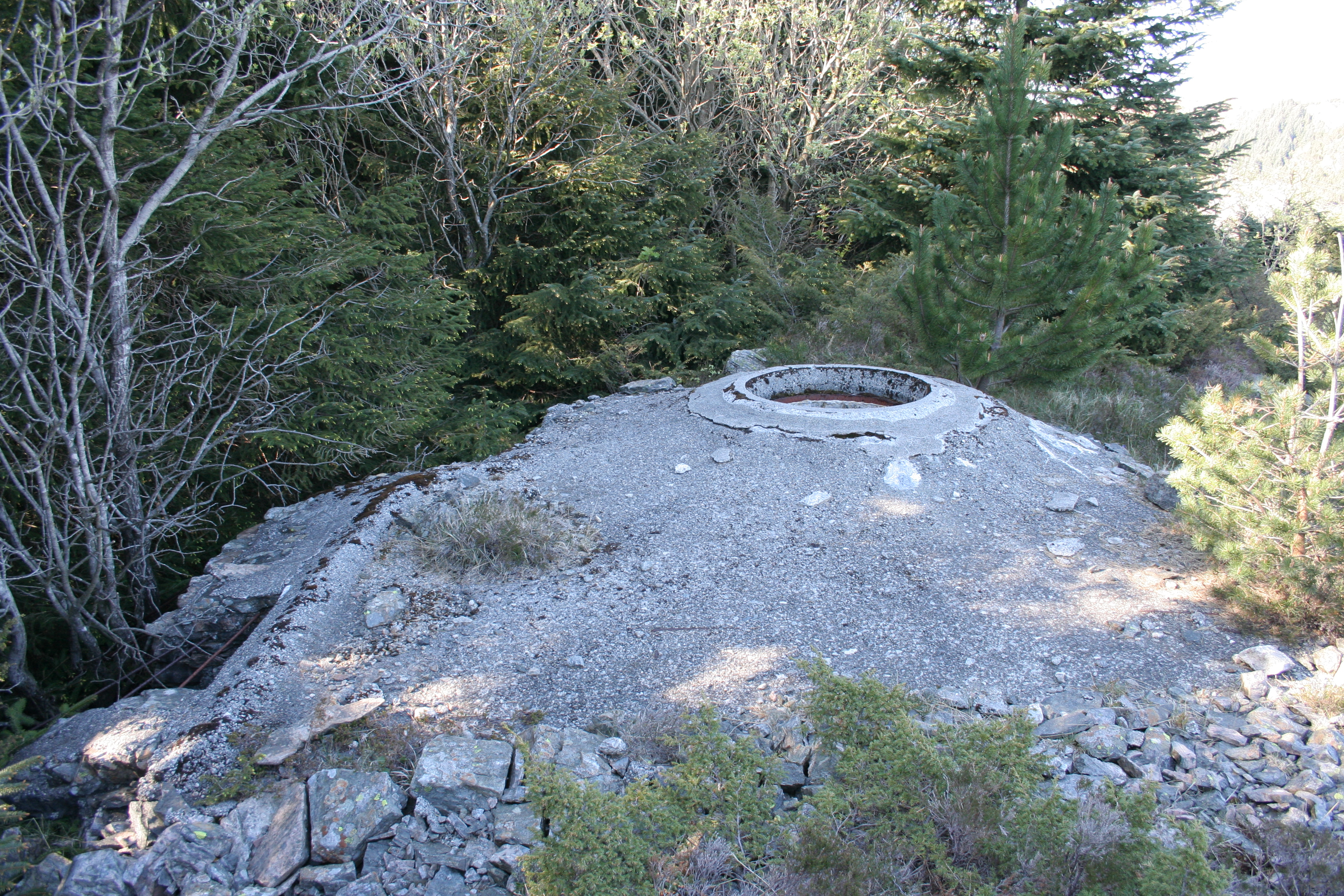 Rs 58, small bunker for machine gun/observation or flame thrower.